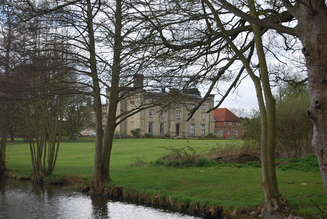 Chiddingstone Castle Built in the early 1500s.